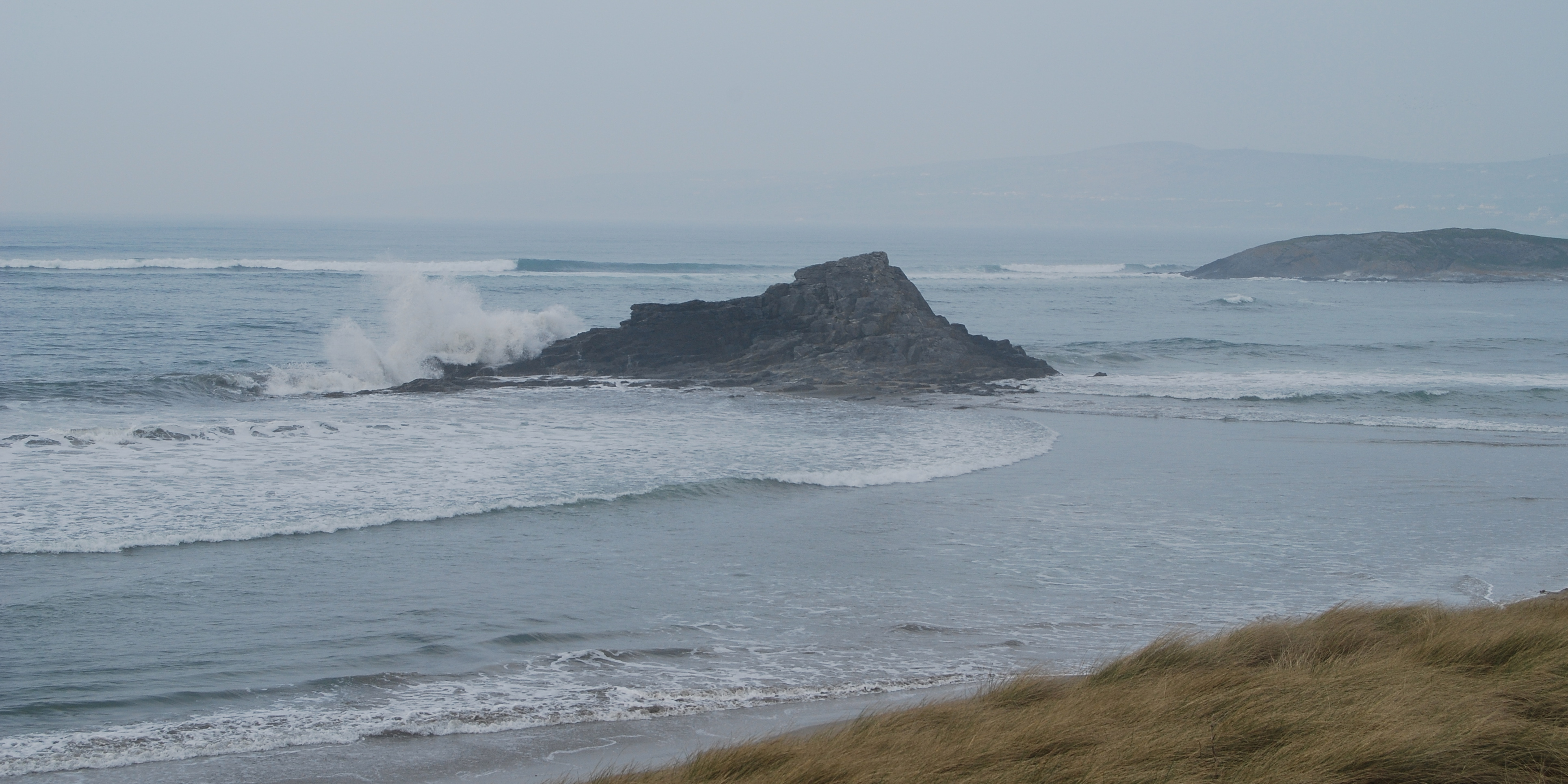 The Small Rock, Banna Strand,( behind one can see the blackrock) County Kerry, Ireland